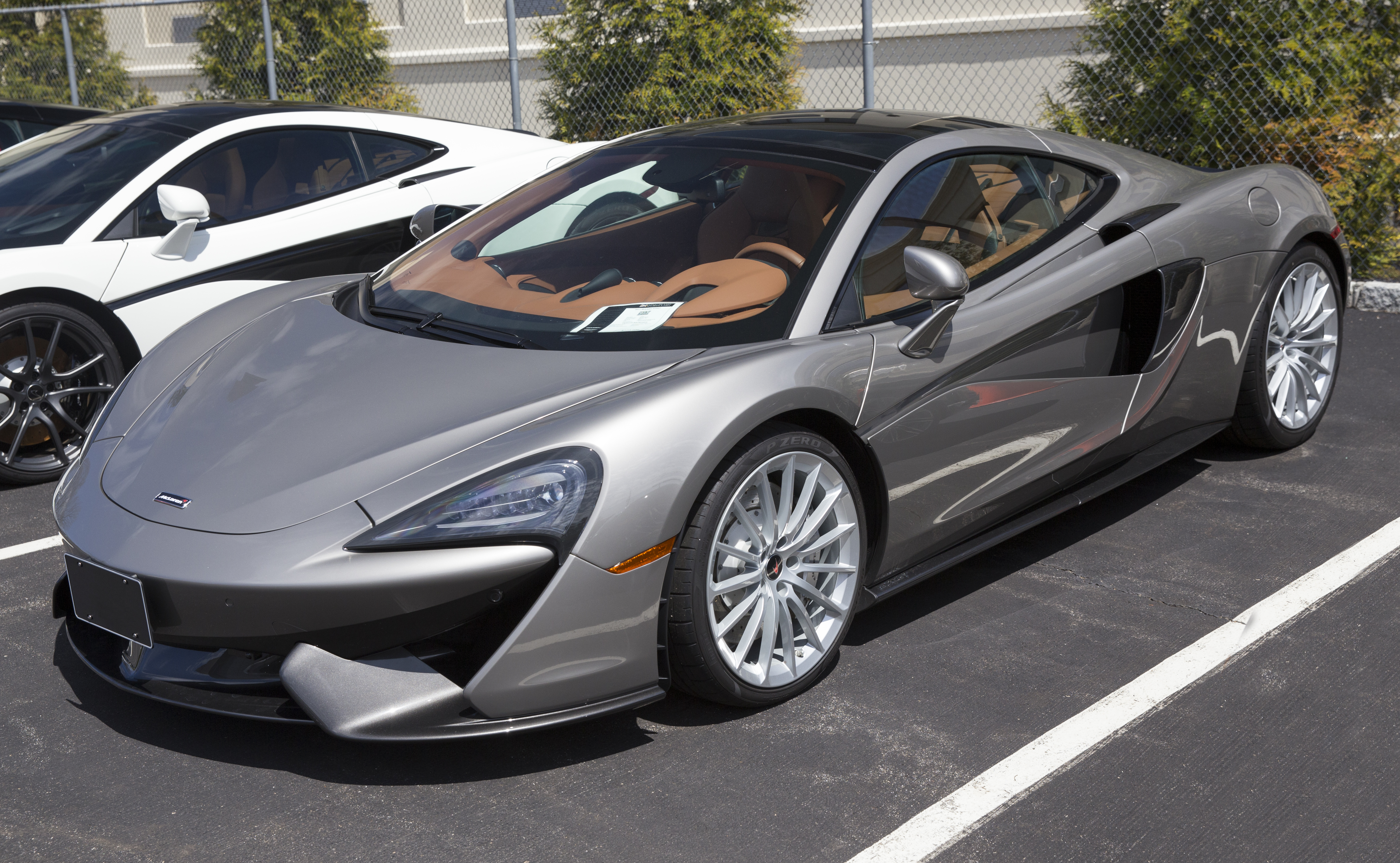 A 2017 McLaren 570GT at a dealership in Long Island, NY. Blade Silver with Saddle Tan Nappa interior, 7-speed dual-clutch transmission, etc etc. Various carbon fiber bits thrown at it as well.